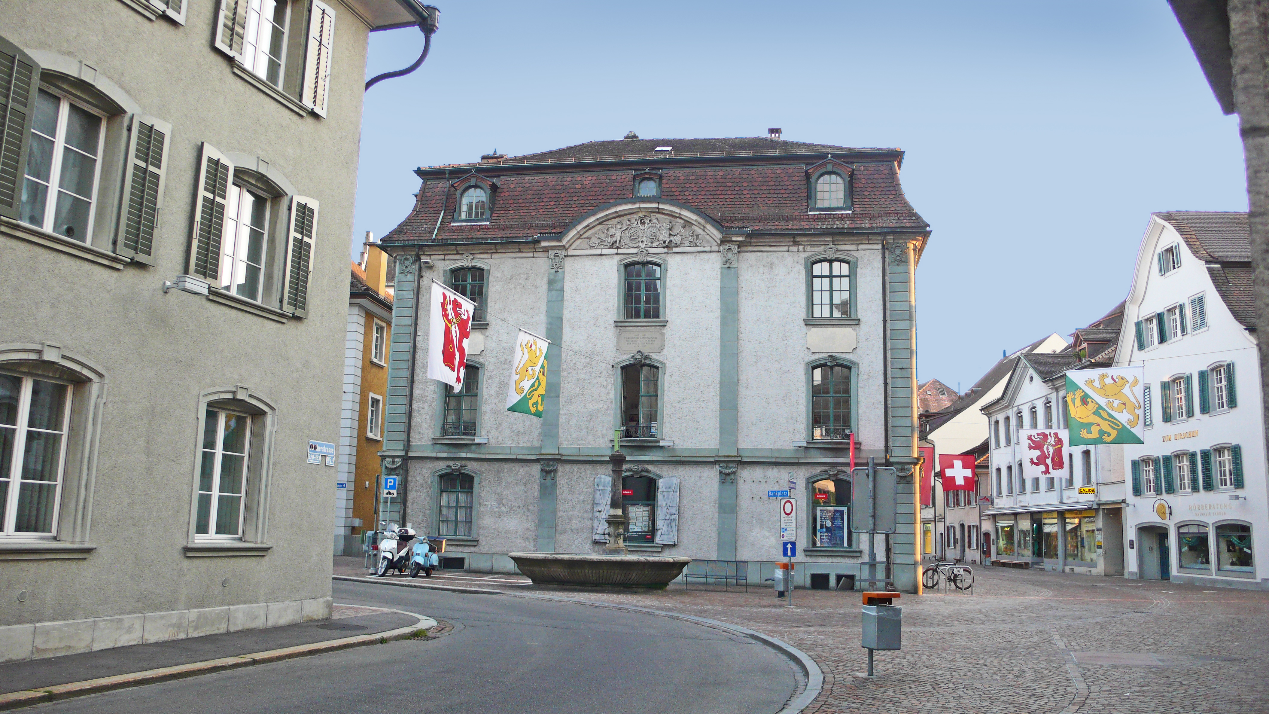 In the old town of Frauenfeld, Switzerland.